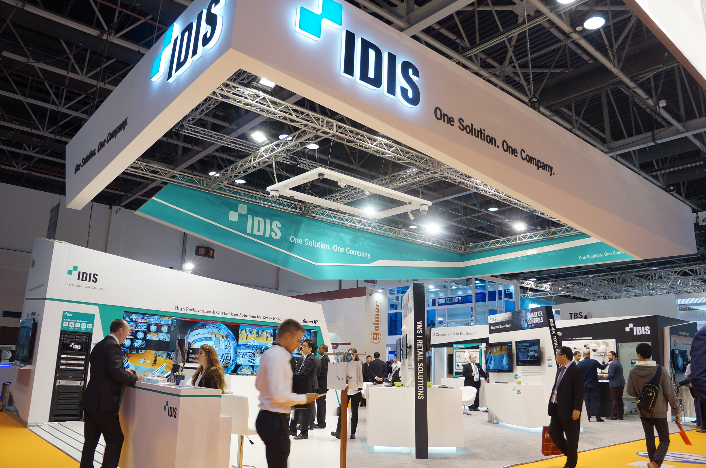 INTERSEC 2016 attendees visit the IDIS exhibition booth.